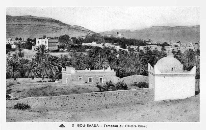 pic